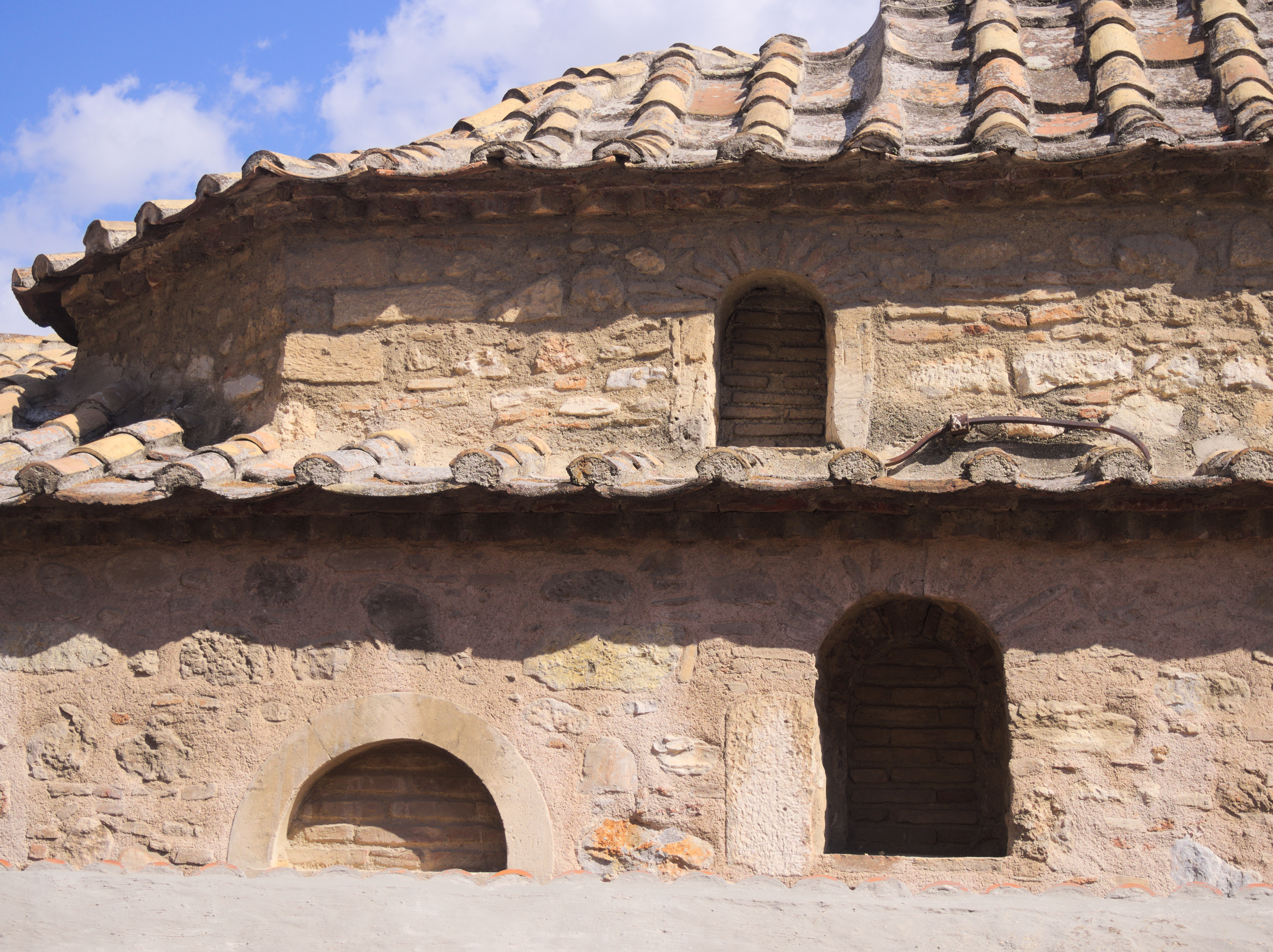 Built-up windows of the church of Agioi Anargyroi at the Metochion of Holy Sepulchre in Athens.